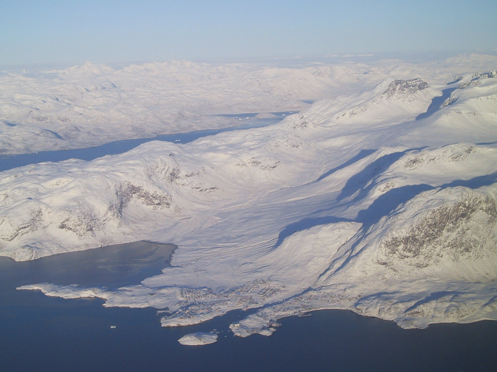 Aerial photo of Narsaq, Greenland